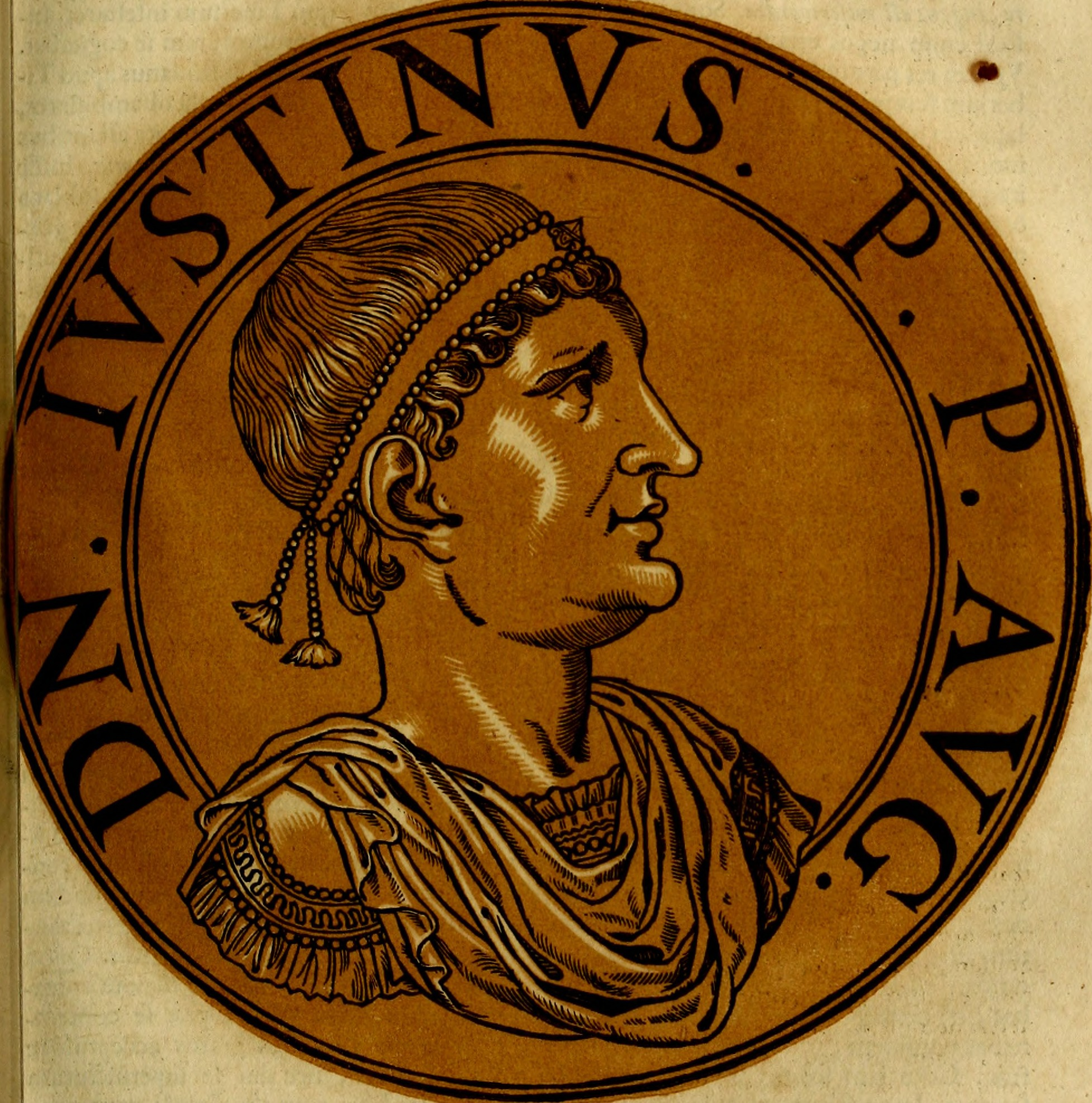 Title: Icones imperatorvm romanorvm, ex priscis numismatibus ad viuum delineatae, & breui narratione historicâ Year: 1645 (1640s) Authors: Goltzius, Hubert, 1526-1583 Gevaerts, Jean-Gaspard, 1593-1666 Rubens, Peter Paul, 1577-1640 Subjects: Emperors Emperors Numismatics, Roman Publisher: Antverpiae, Ex officina plantiniana Balthasaris Moreti Text Appearing Before Image: 18 S XCIIL N O N BE AT V S,• OVI SE BEATVM NESCIT. Text Appearing After Image: Ab x I. annis fui Imperij pedum intolerabilicruciatu perijt. Aa